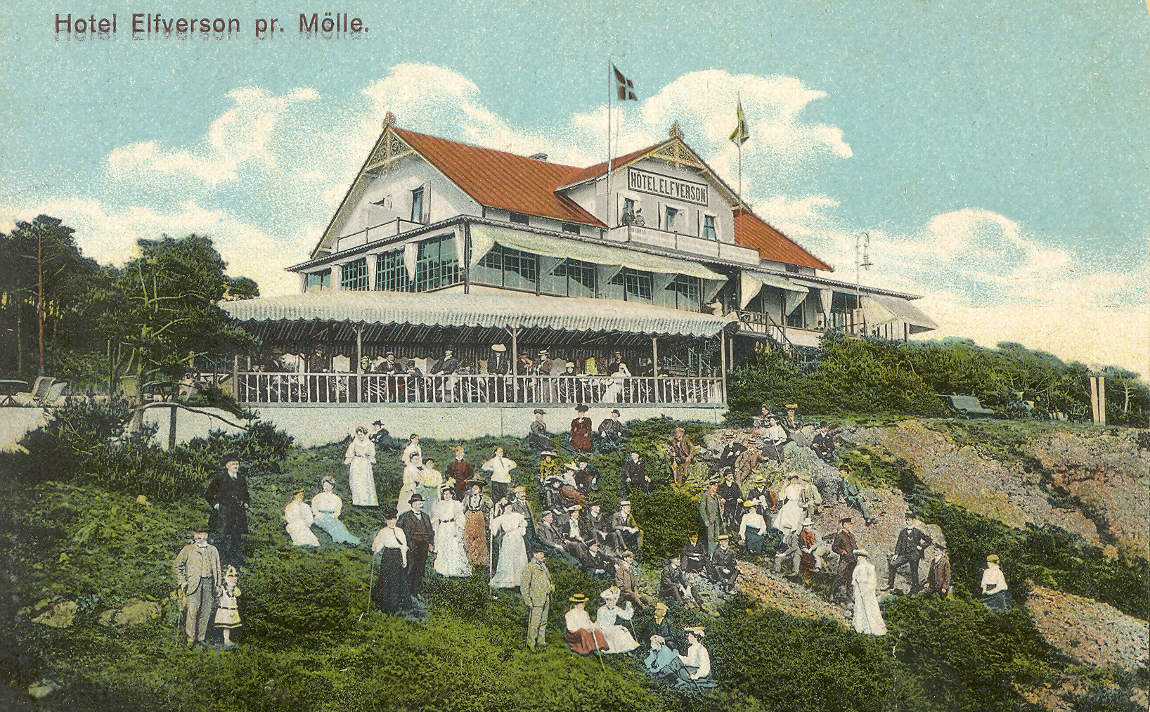 Hotel Elfverson, Mölle, Sweden